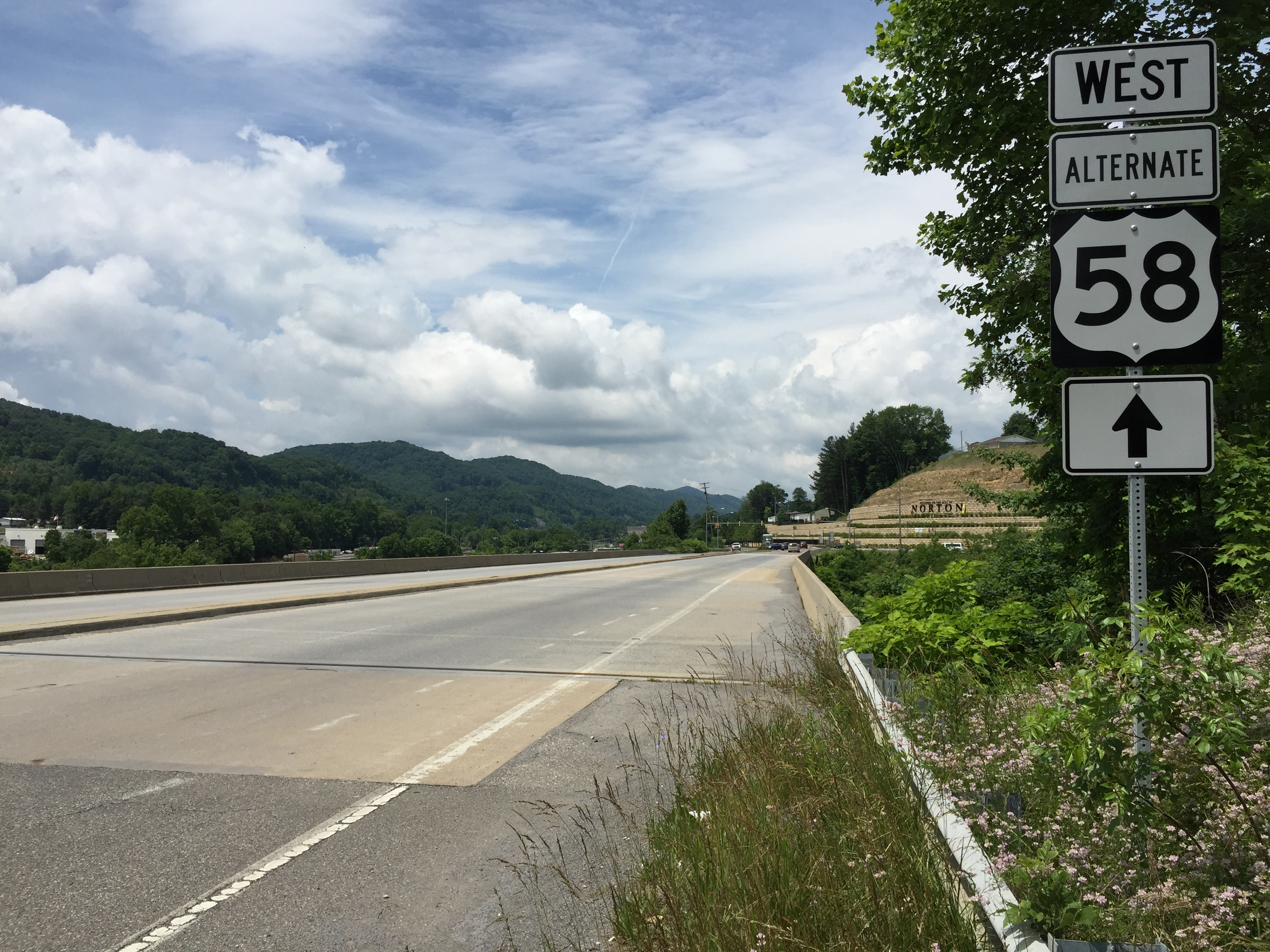 View west along U.S. Route 58 Alternate Business and Virginia State Route 283 (Norton-Coeburn Road) at the Guest River Bridge in Norton, Virginia